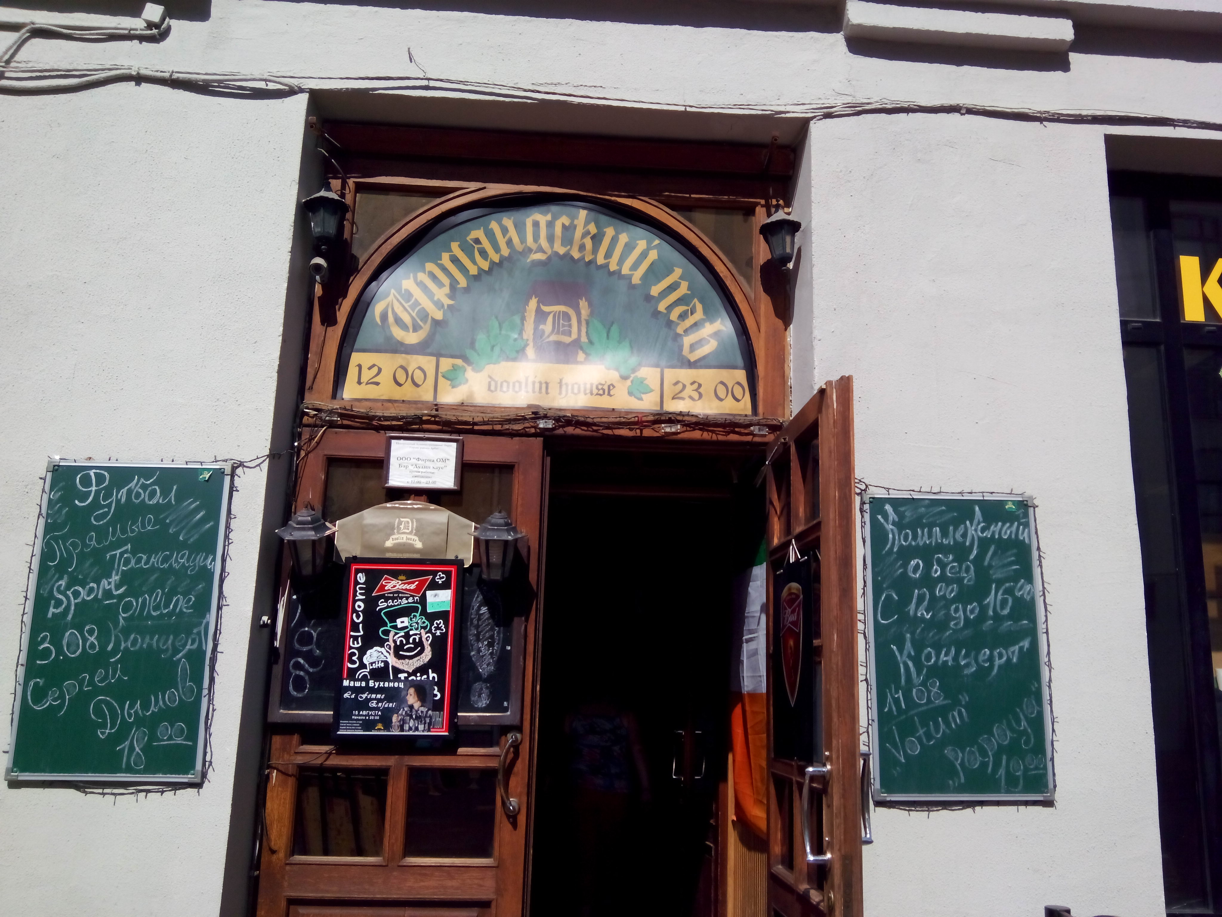 An Irish Pub in Moscow